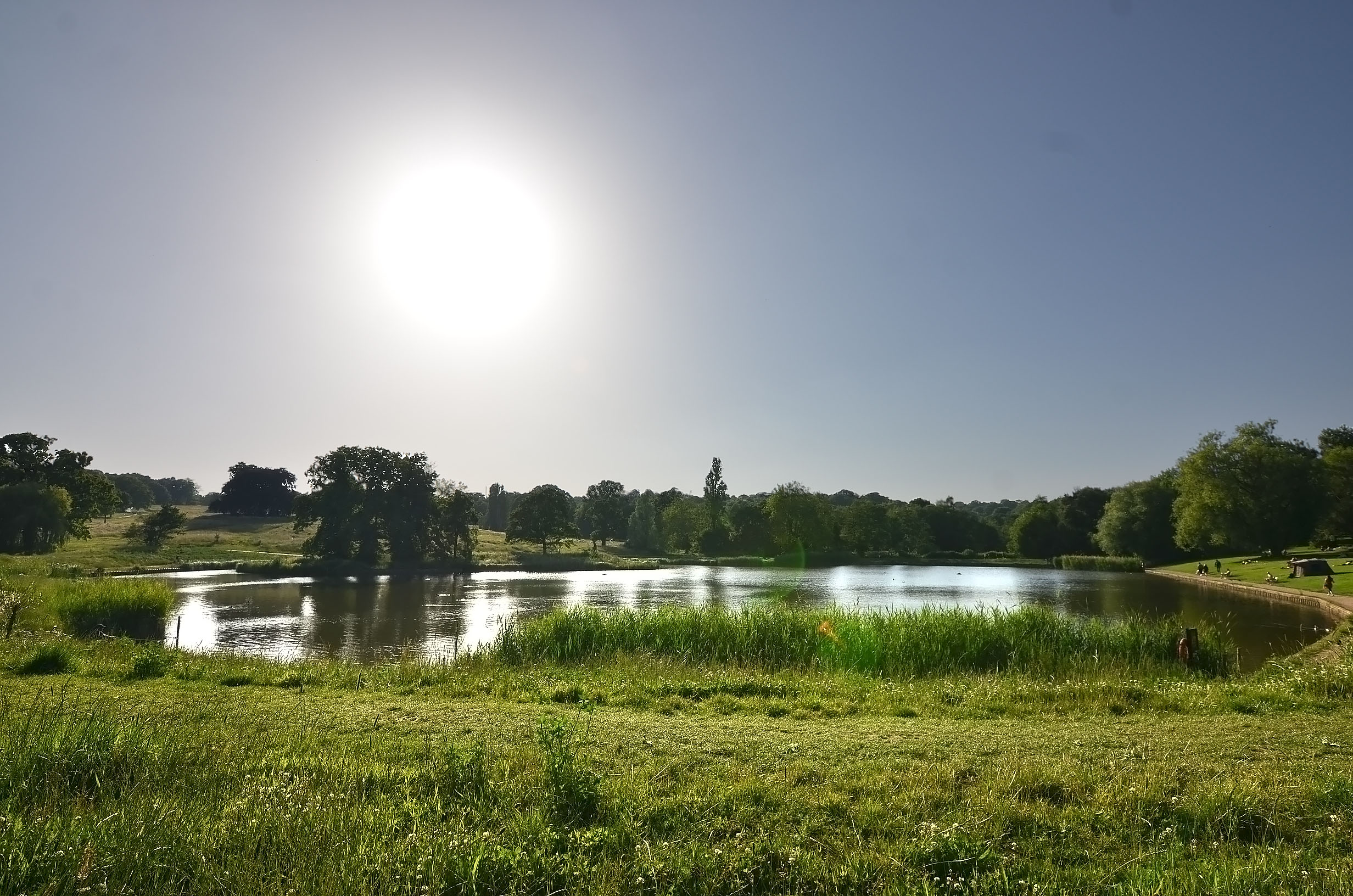 The image was taken at the Southeast corner of the Highgate model boating pond on Hampstead Heath (AKA Highgate pond 3). The image was taken after the controversial Pond "upgrade" work, begun in 2016, costing in excess of £22M .